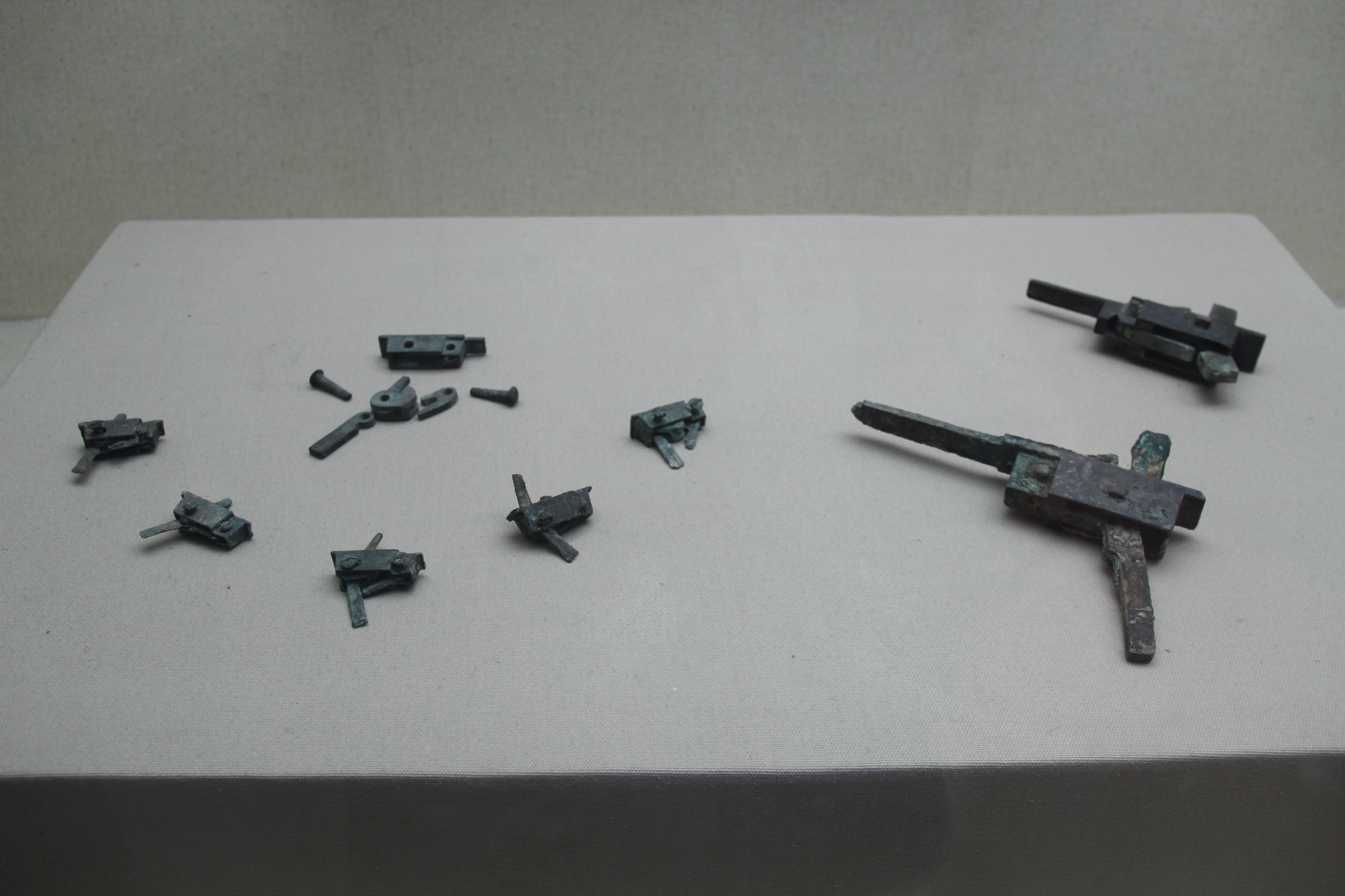 Han crossbow trigger mech